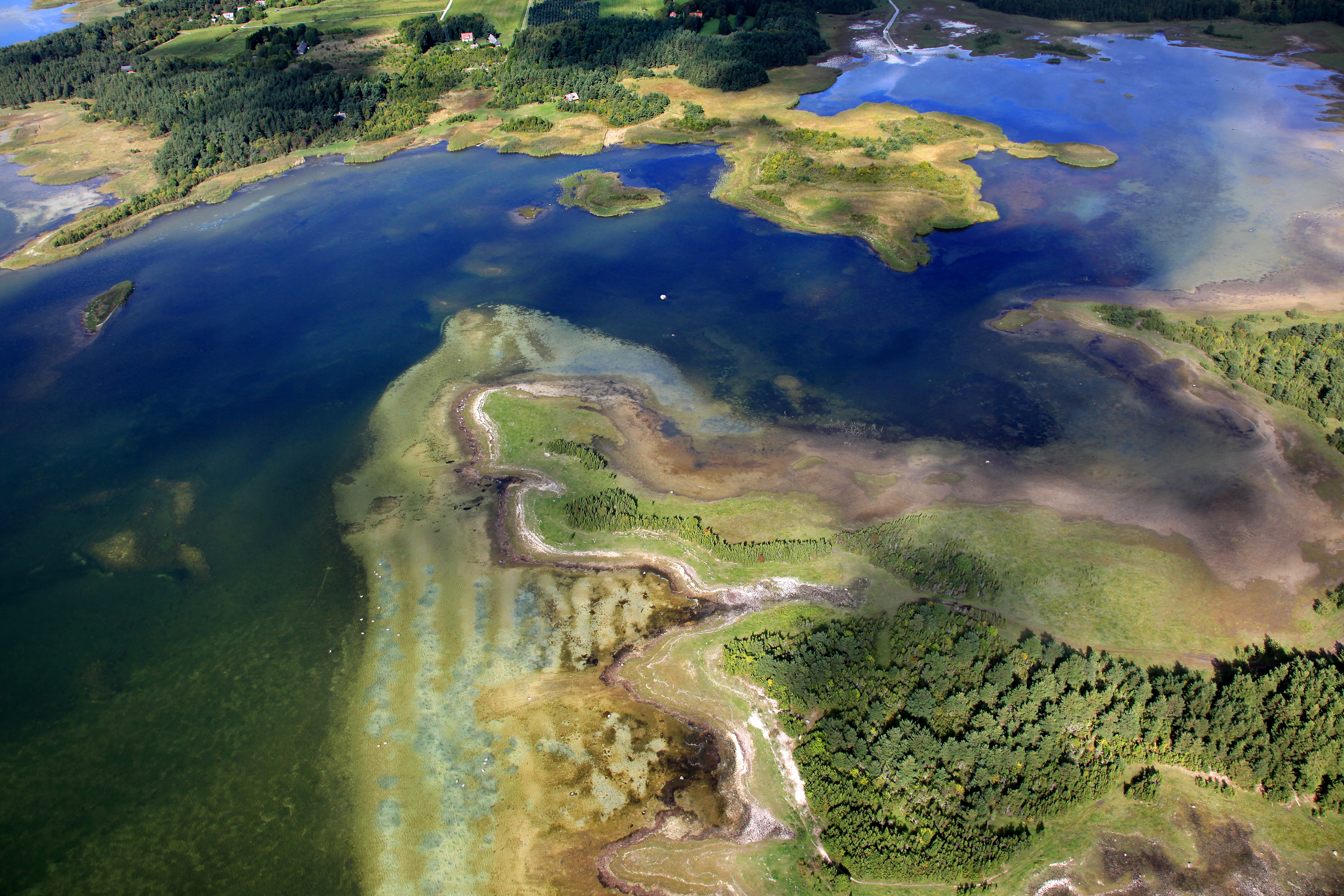 Kassari seafloor